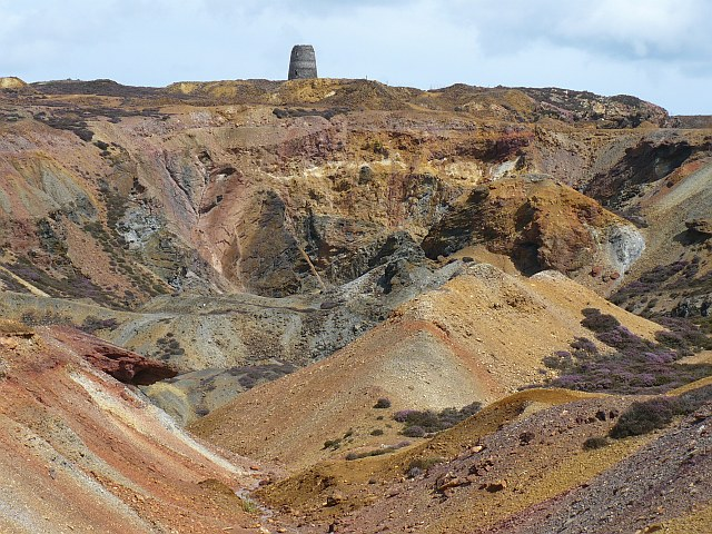 The Great Opencast, Parys Mountain Looking across the Great Opencast towards the ruined windmill on the summit of Parys Mountain. The mill, which had five sails, was opened in 1878 to pump water from the underlying mine workings.